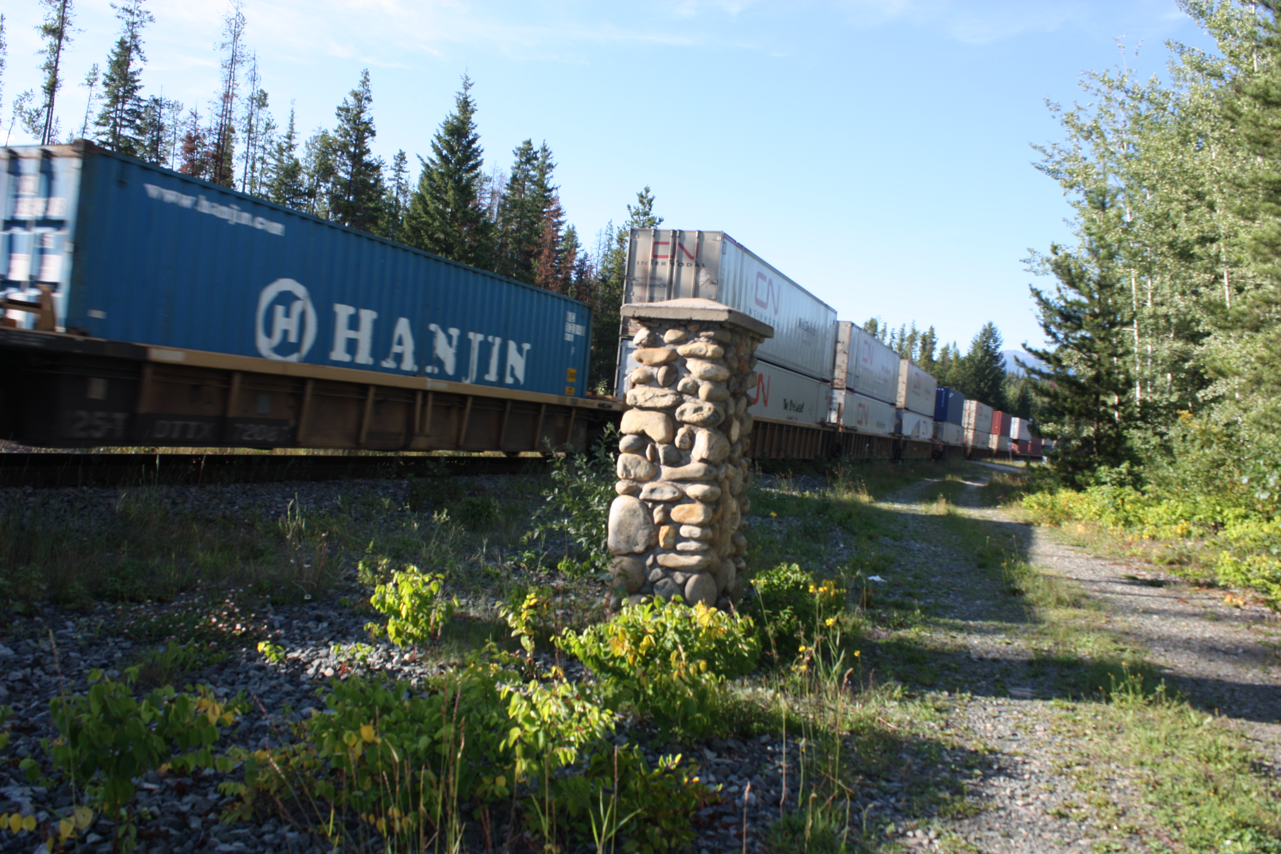 A freight train passes by the Canoe River cairn, Canoe River BC